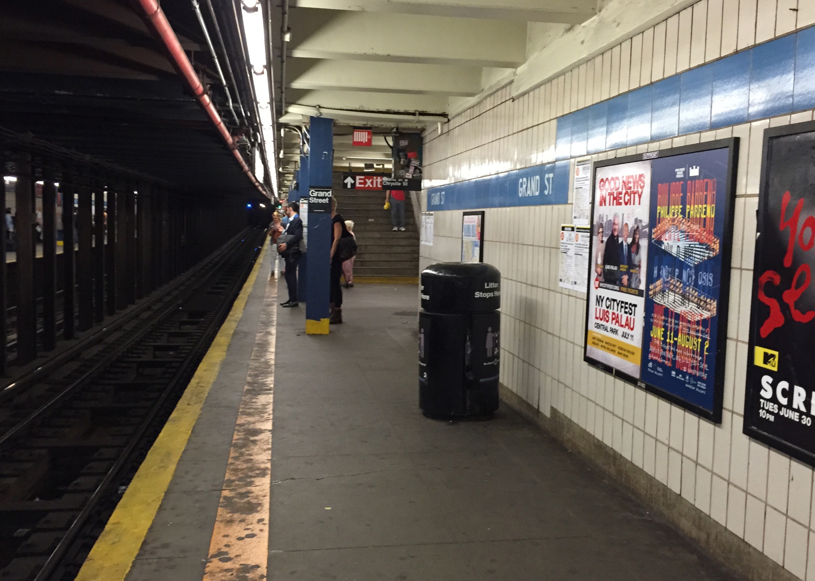 Uptown platform at the Grand Street station